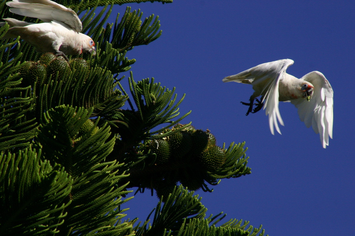 Little Corella, also known as the Bare-eyed Cockatoo, in Sydney, Australia.